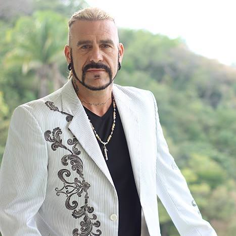 Photo of Barry Cooper, lecturer, human rights activist, and advocate of the people.